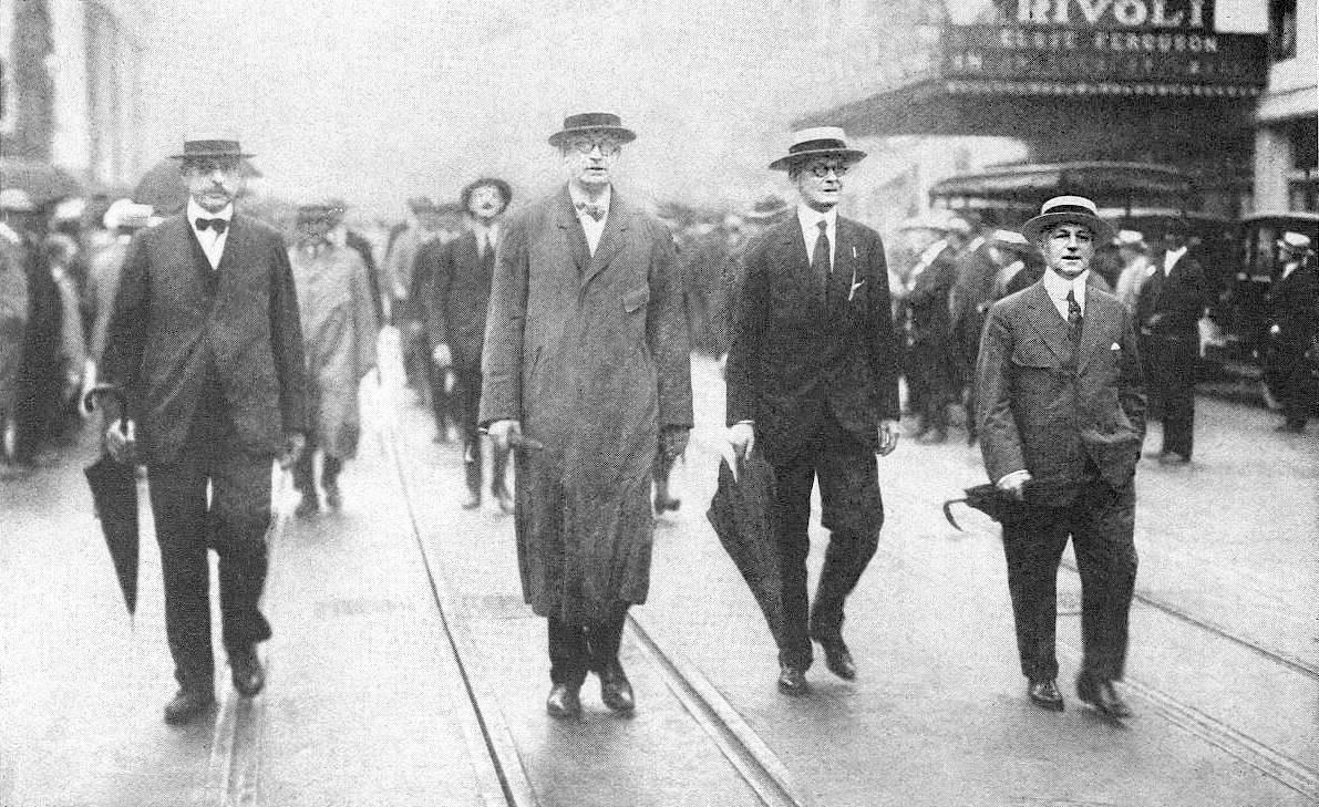 Leaders of Actors' Equity on parade during the 1919 strike for recognition, from the left: John Cope, John Stewart, Frank Gillmore, and Francis Wilson. On page 48 of the October 1919 Photoplay.